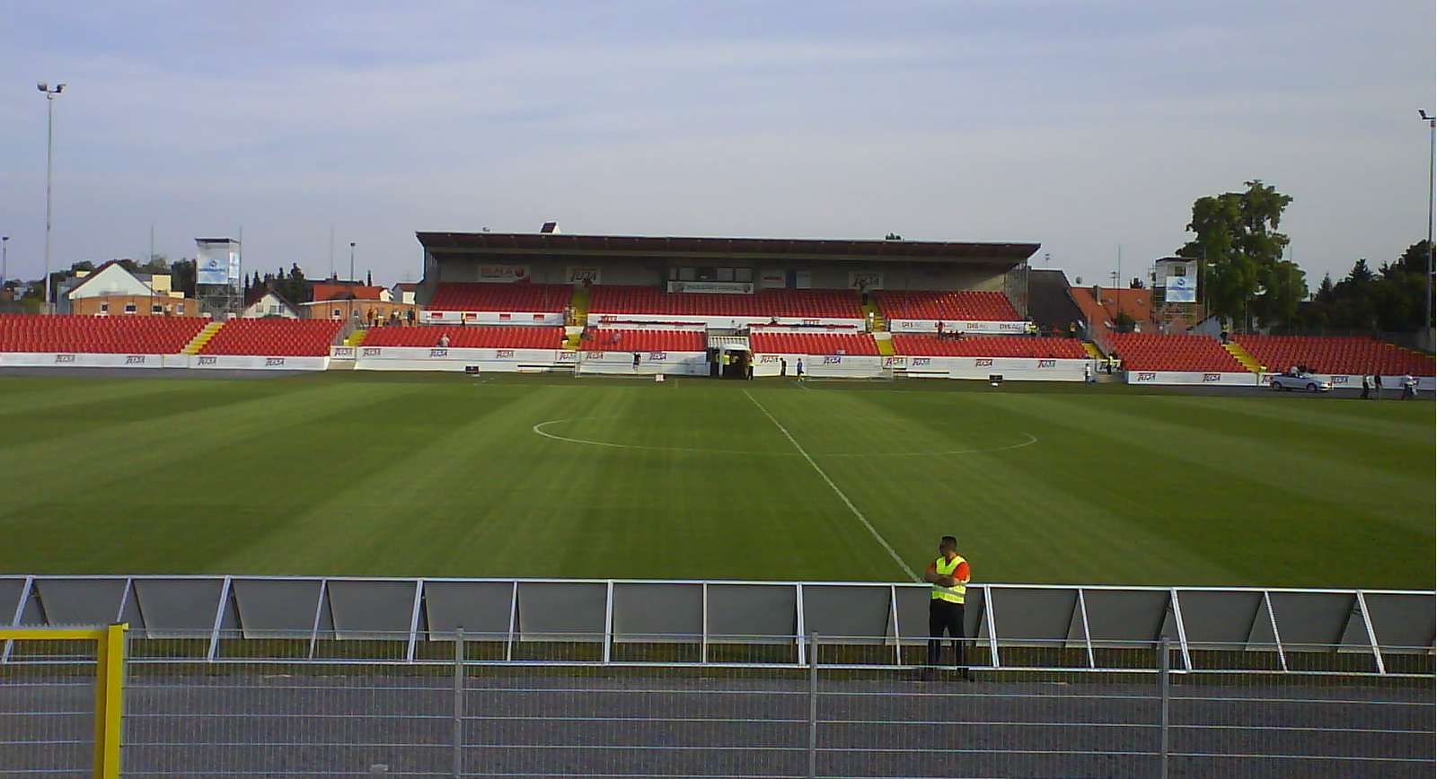 Tuja-Stadion before re-opening.